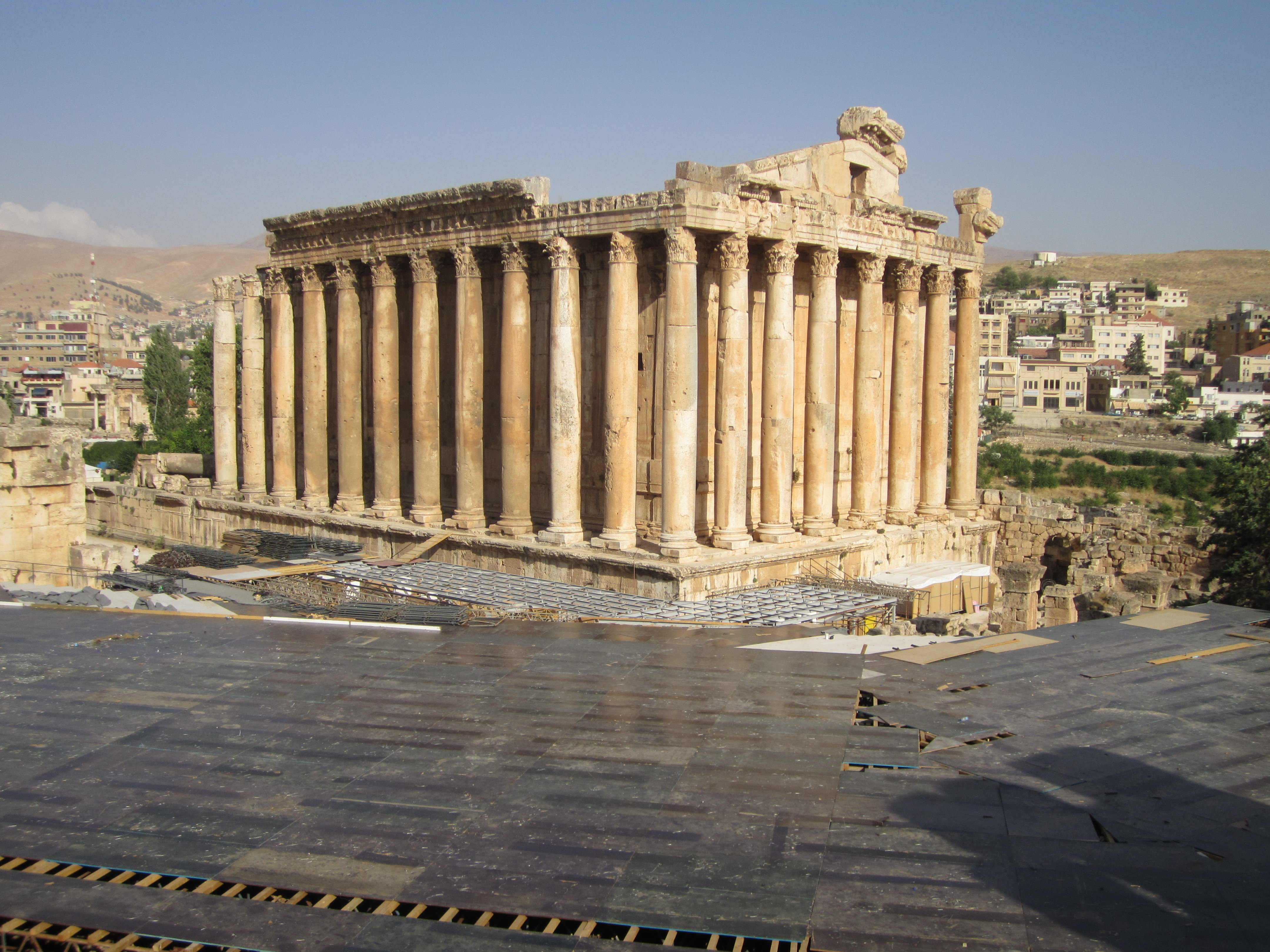 Temple of Bacchus, Baalbek, Heliopolis, Lebanon